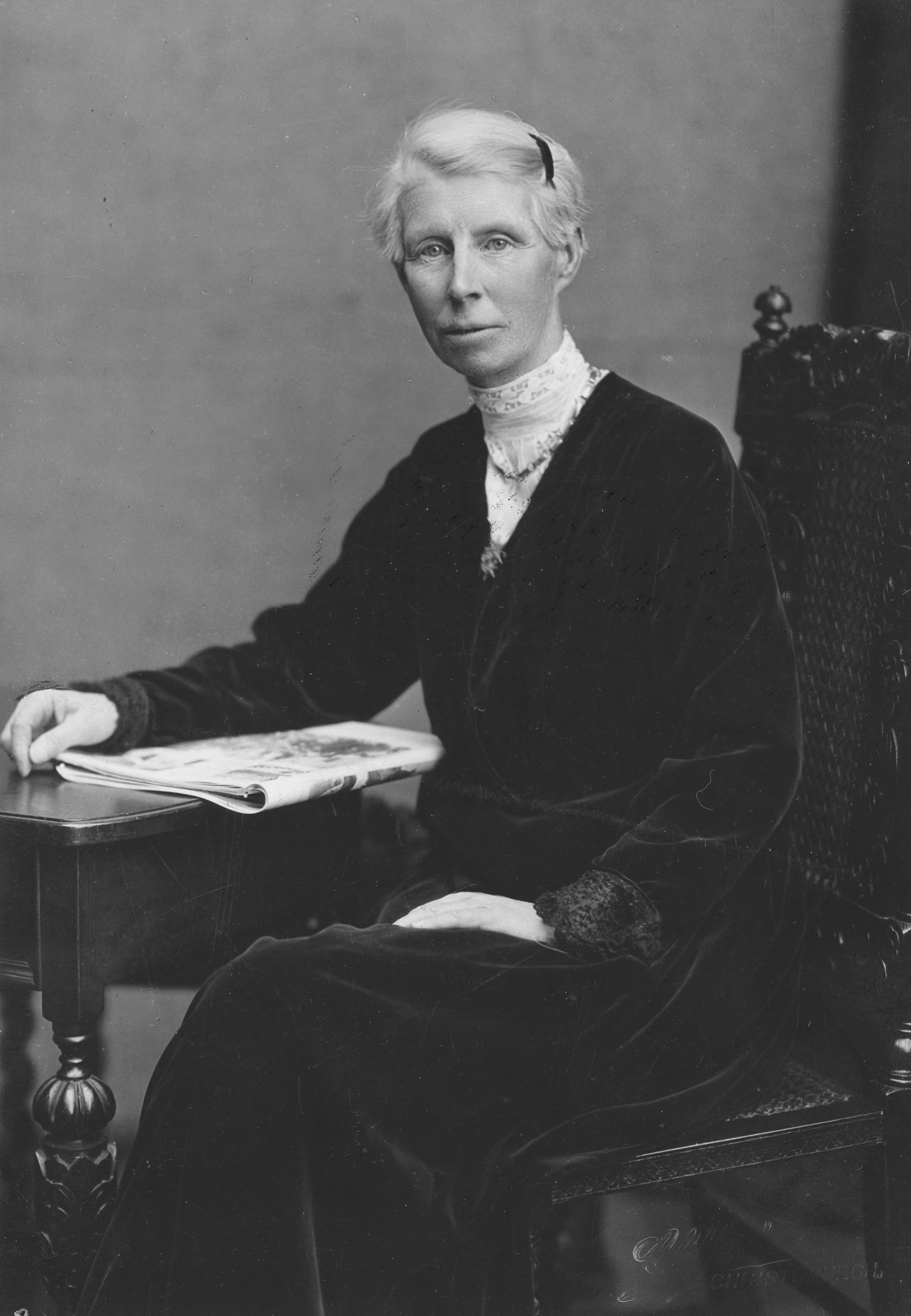 Seated portrait of Jessie Mackay circa 1929, taken by Clifford of Christchurch (possibly Henry Herbert).